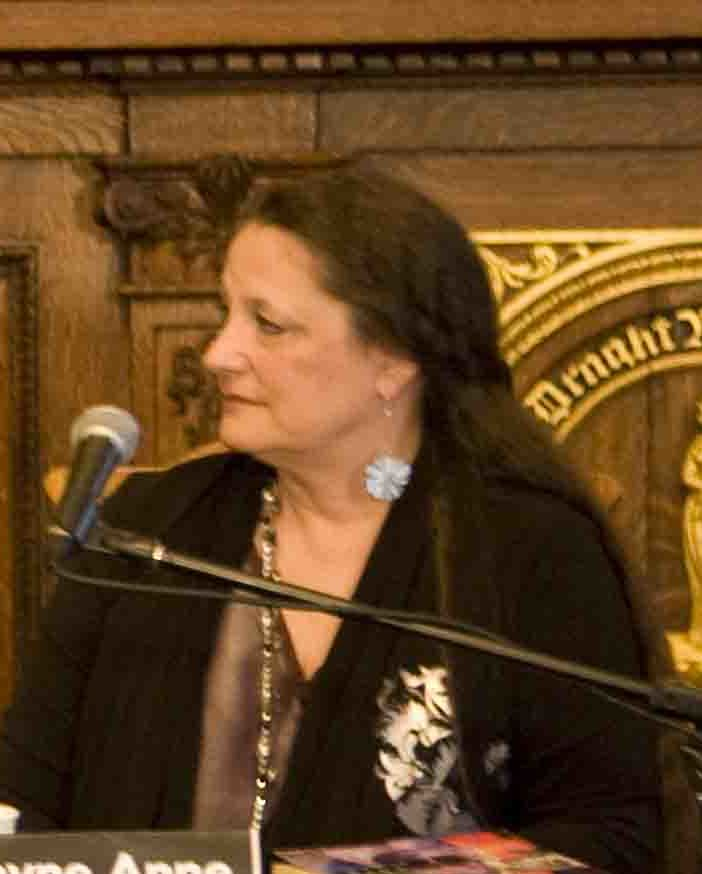 The first panel: Mothers and Daughters. An adult imagining and reimagining the relationship with one’s mother invariably leads back to the complex web of childhood and upbringing. Short readings followed by a discussion and Q&A. Featuring fiction authors Marlon James (The Book of Night Women), Elizabeth Nunez (Anna In-Between), and Jayne Anne Phillips (Lark & Termite). Introduced by Kaylie Jones.